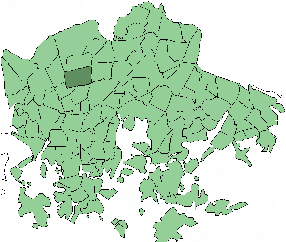 Districts of Helsinki, Länsi-Pakila highlighted